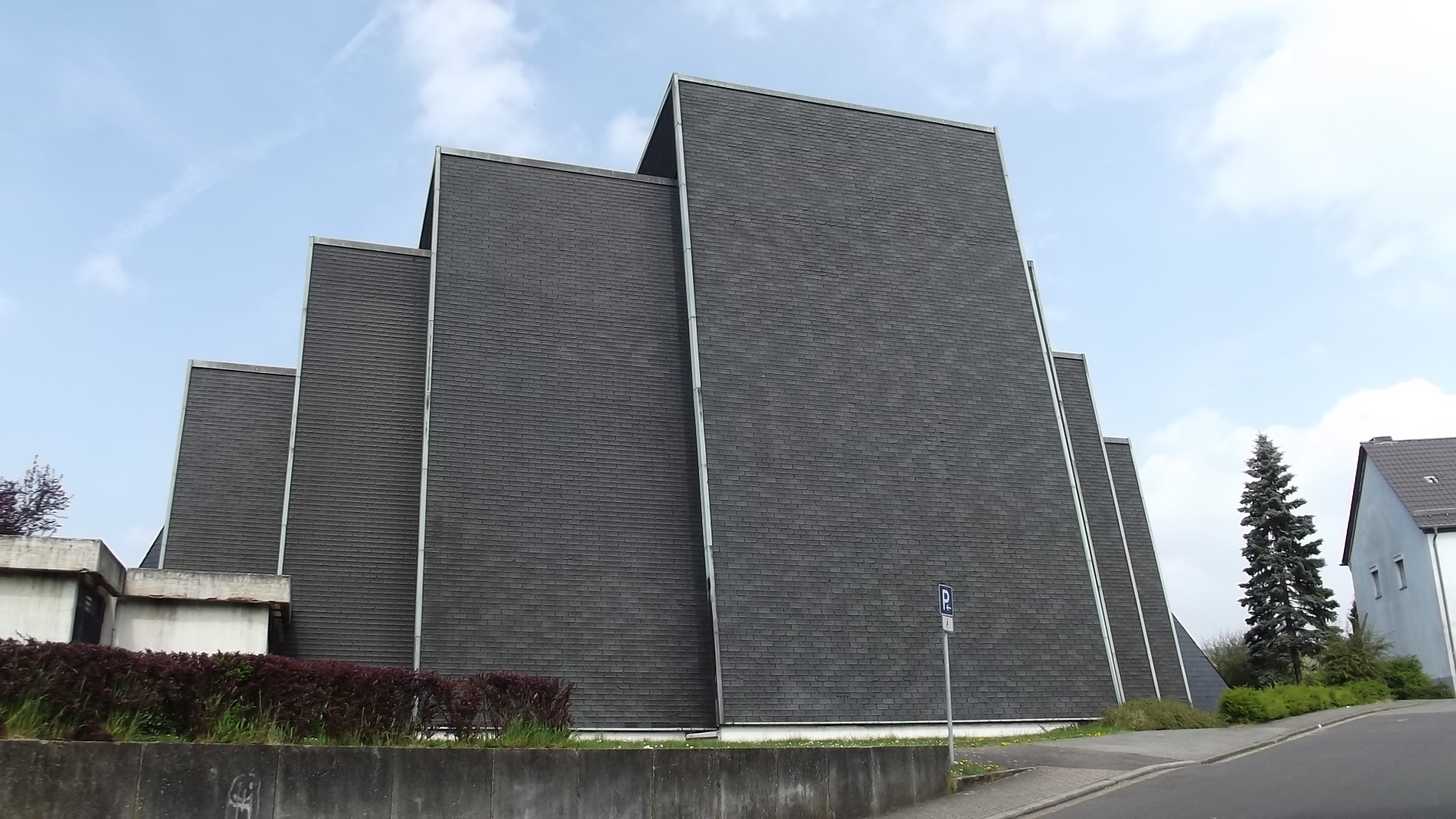 Exterior of the new roman catholic church in Primstal, Saarland